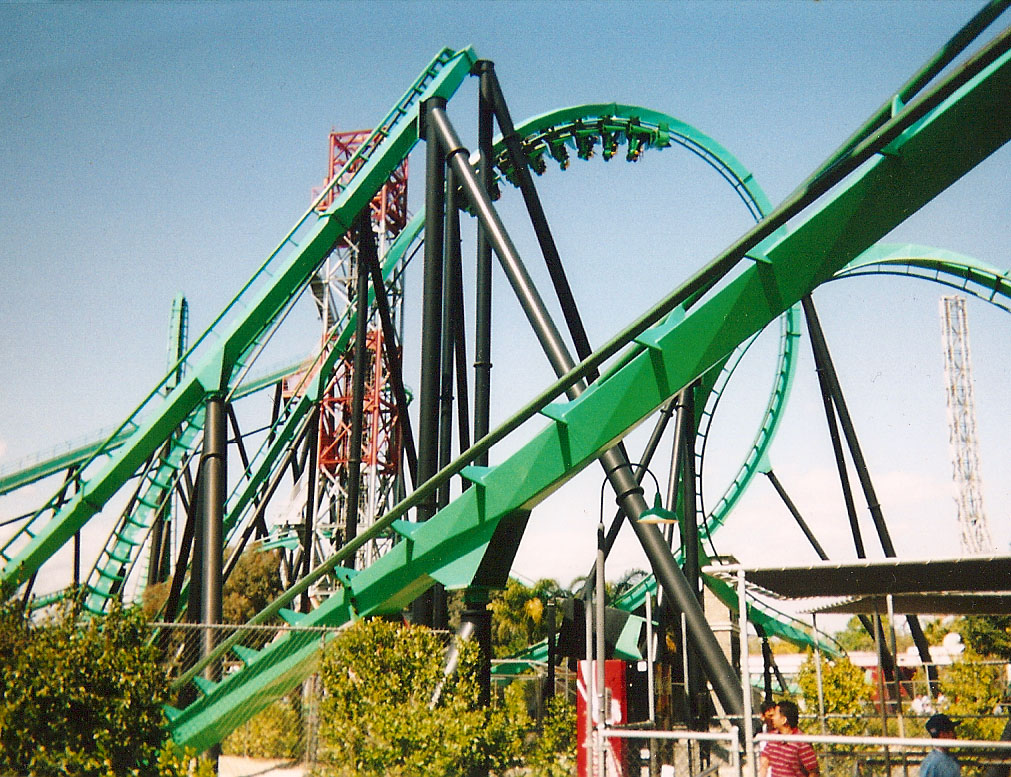 Riddler's Revenge at Six Flags Magic Mountain